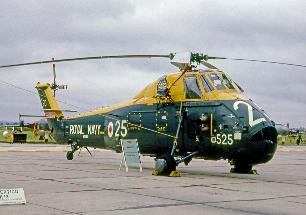 Westland Wessex HAS.1 XS868 of 737 Squadron Royal Navy at RNAS Yeovilton in 1966